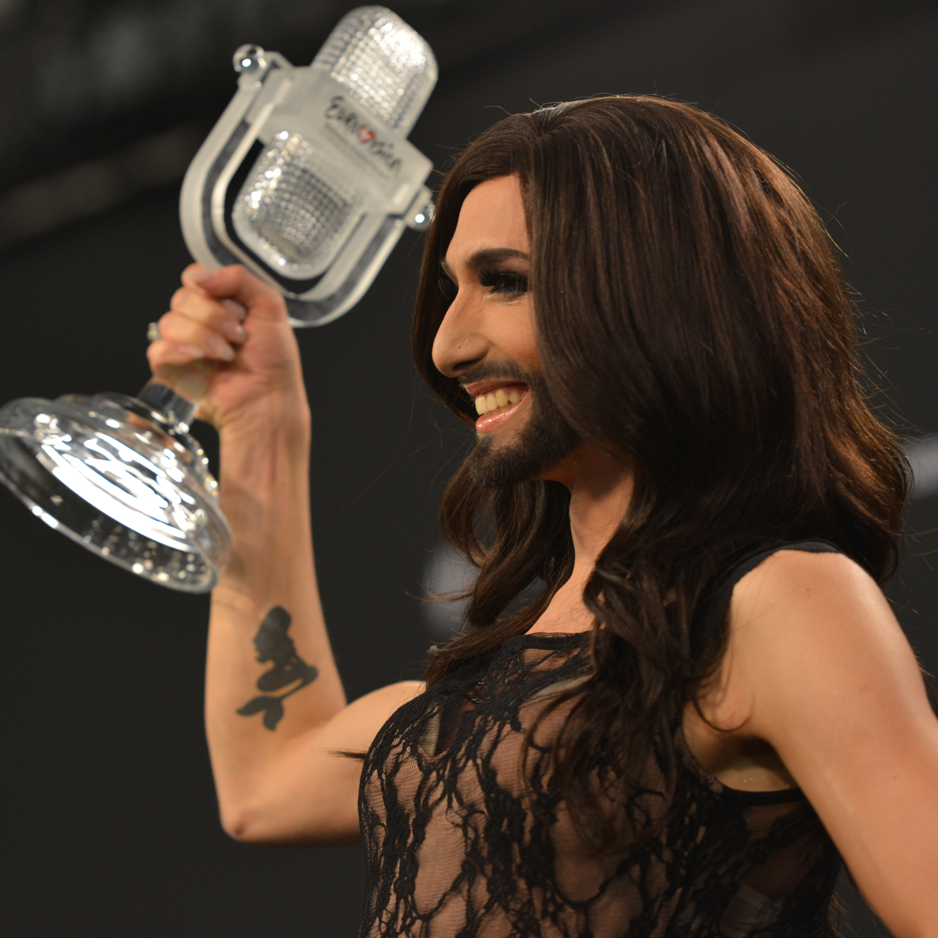 Conchita Wurst. Winner of ESC2014.